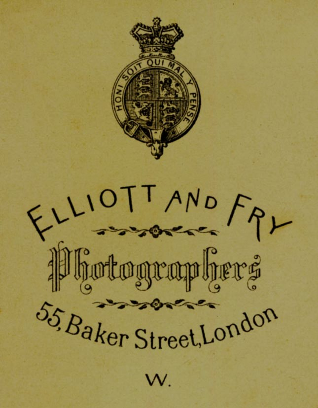 Reverse of carte-de-visite photograph produced by the firm of Elliott & Fry Alternative namesJoseph John Elliott and Clarence Edmund FryDescription British photographer British photographic portrait studioDate of birth/deathElliott: 14 October 1835 Fry: 1840Elliott: 30 March 1903 Fry: 1897Work periodfrom 1860s until 1960sWork locationStudios in London (55 & 56 Baker Street)